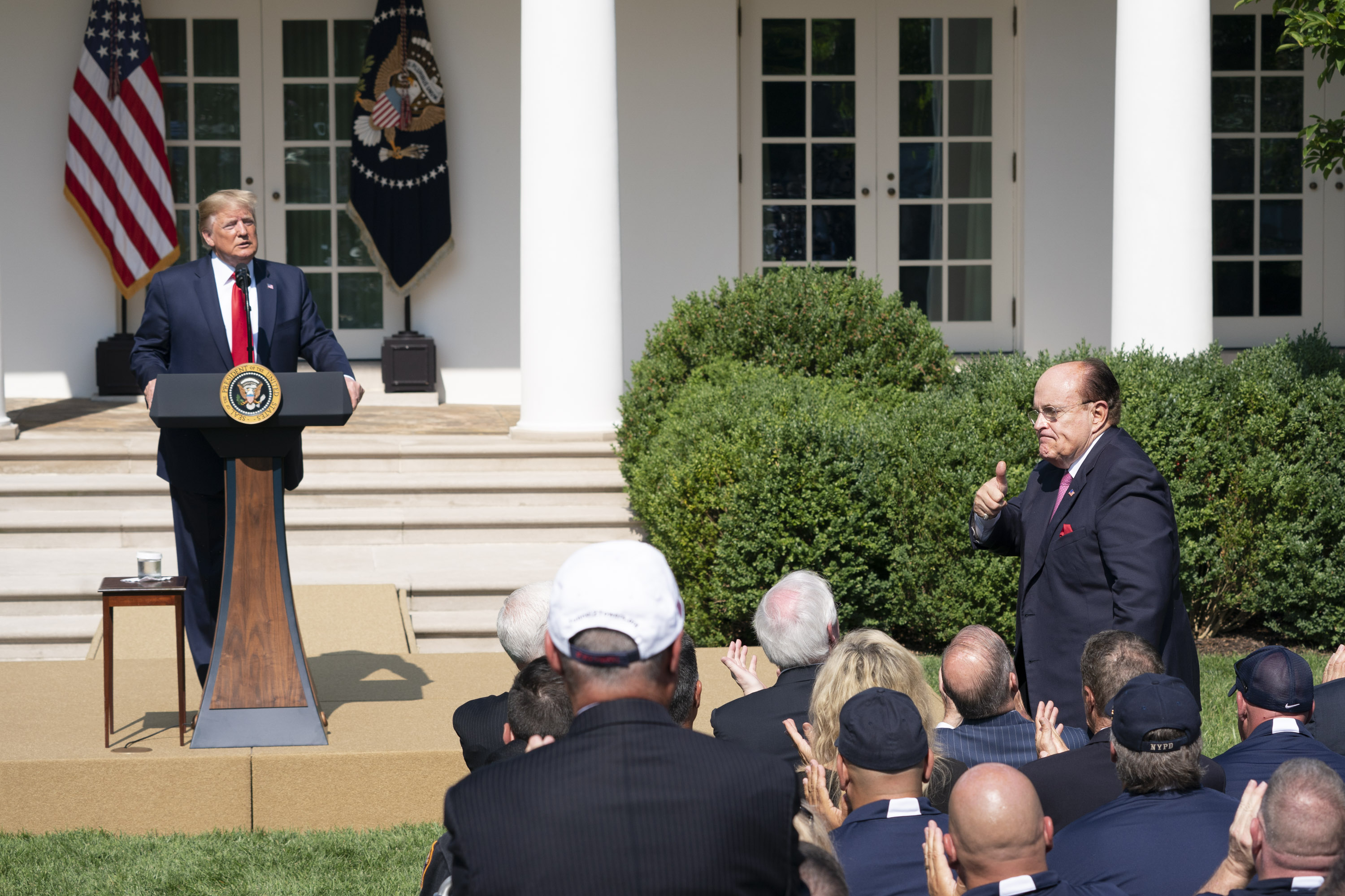 President Donald J. Trump recognizes former New York City Mayor Rudy Giuliani prior to signing H.R. 1327; an act to permanently authorize the September 11th Victim Compensation Fund Monday, July 29, 2019, in the Rose Garden of the White House. (Official White House Photo by Joyce N. Boghosian)